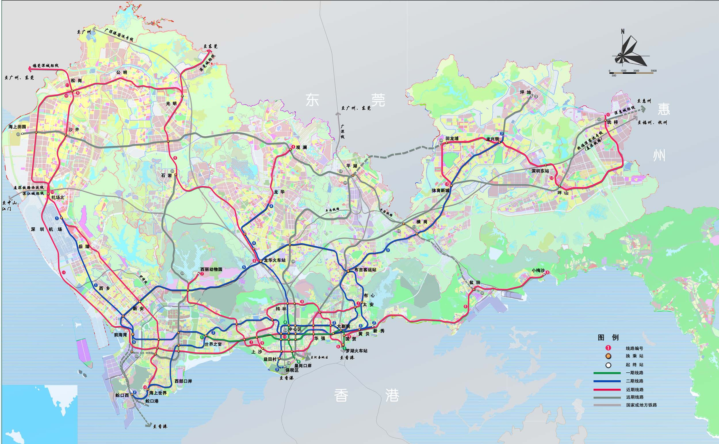 A plan map of Shenzhen Metro revised in 2007.The plan may be out-of-date and has been changed.